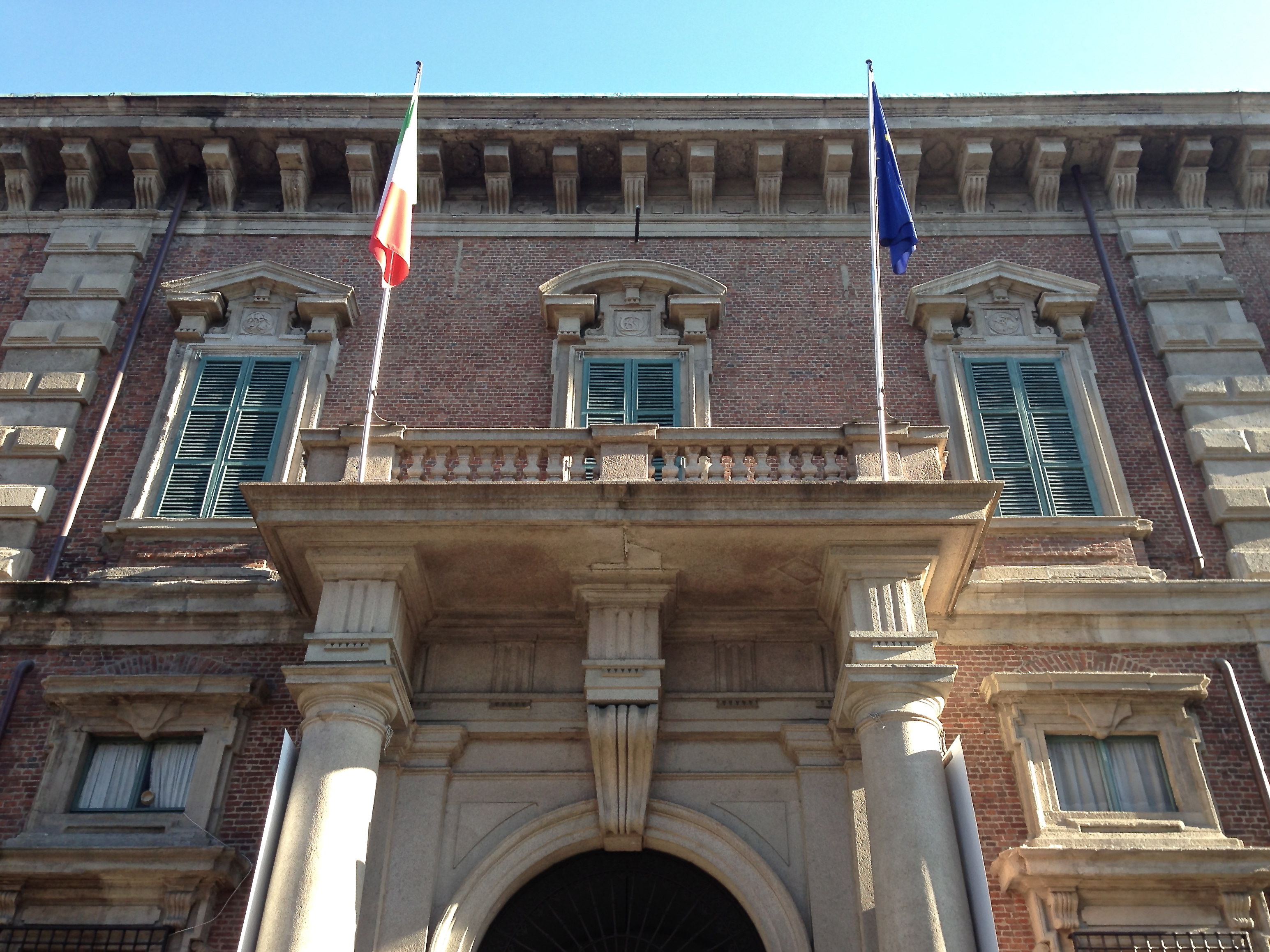 Brera Art Academy, Milan, Italy Entrance to main courtyard